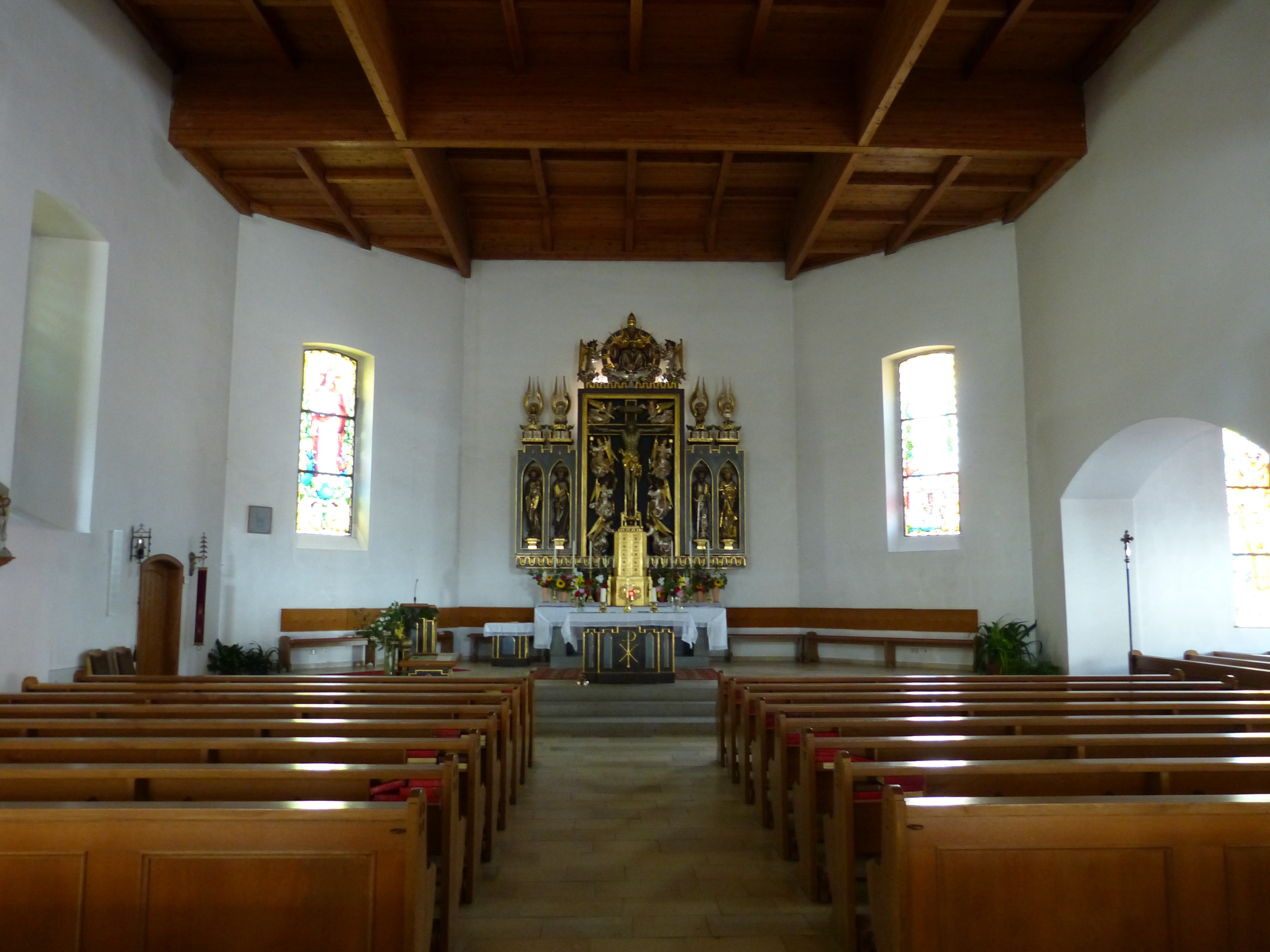 Vorderweißenbach ( Upper Austria ). Ss. Peter and Paul parish church: Interior ( 1945-1948 ).